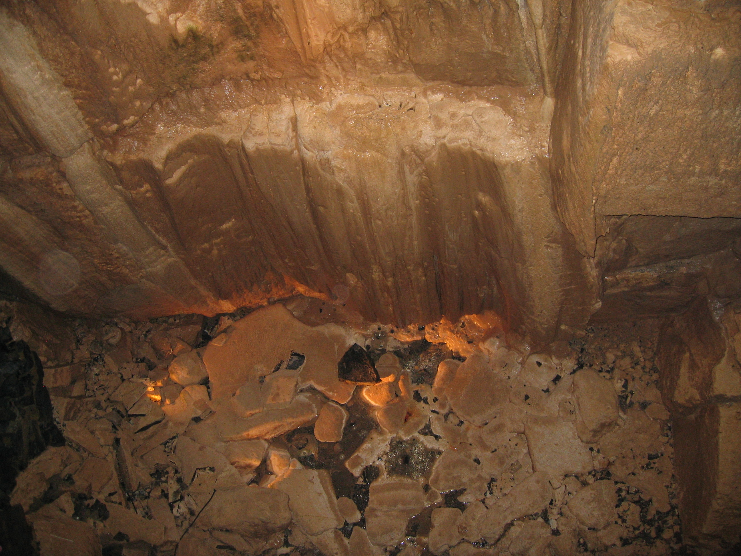 Aillwee Cave in Ireland.